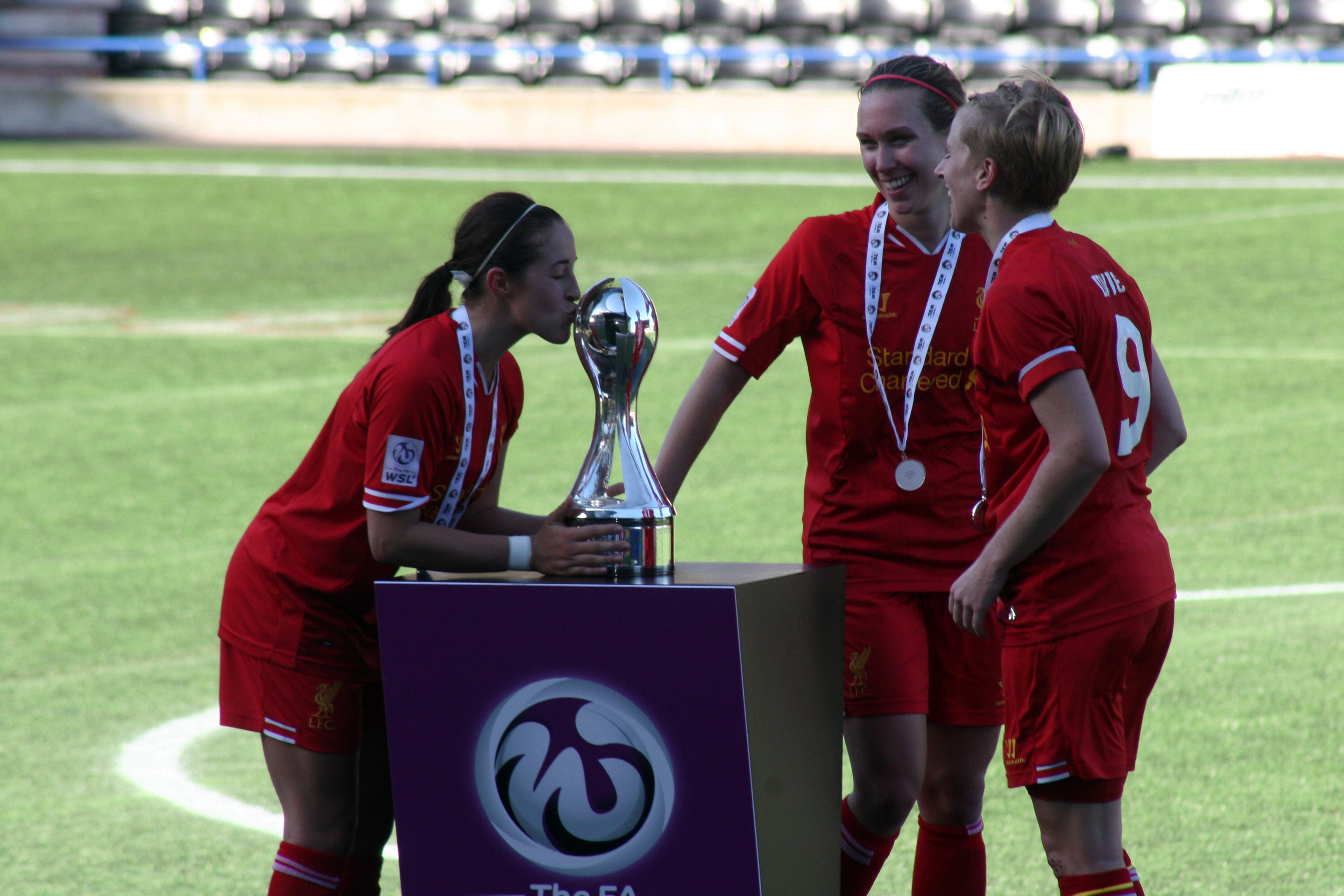 Liverpool L.F.C. - 2013 FA WSL Championship celebration